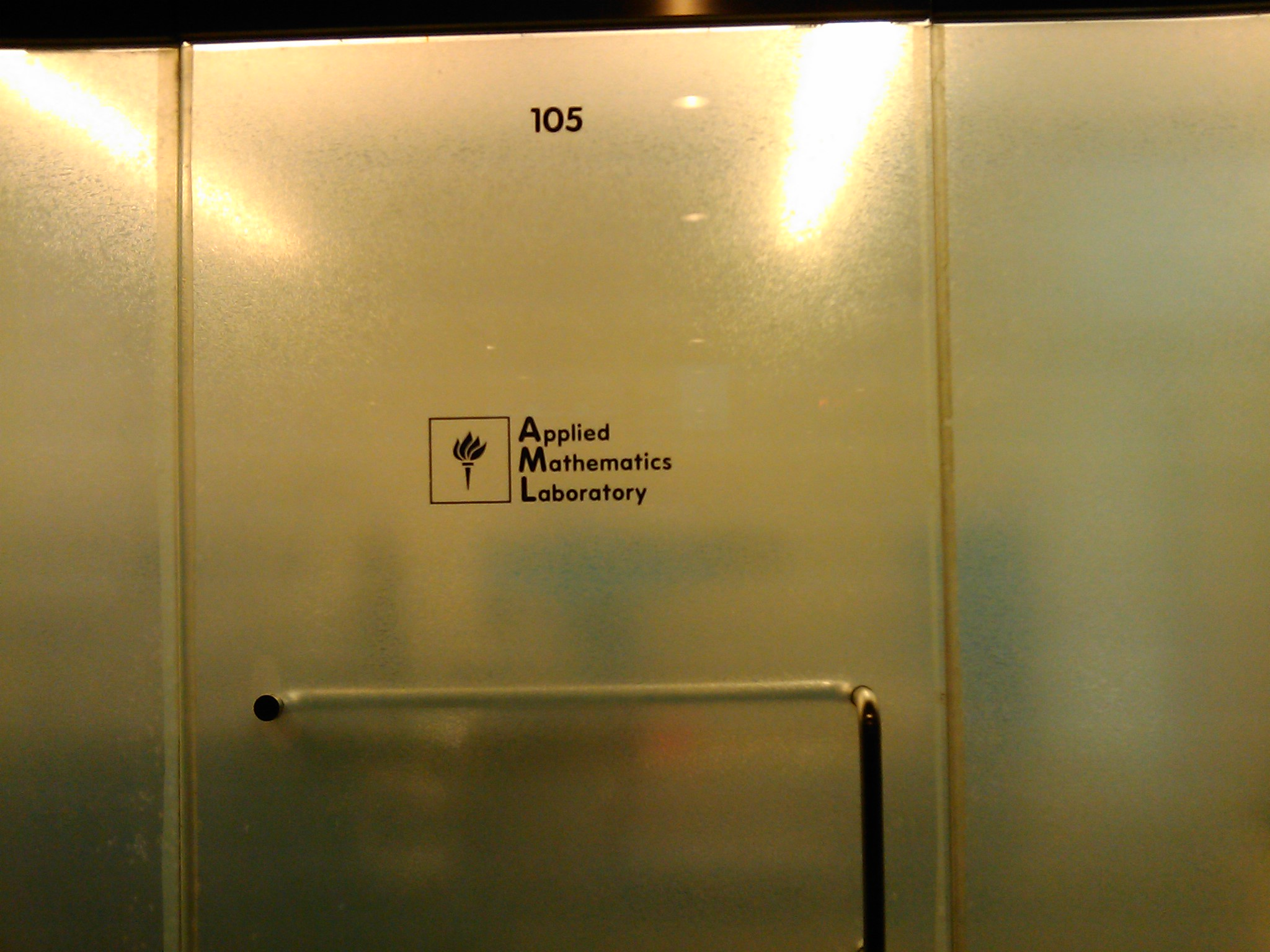 This is the main entrance to the Applied Mathematics Laboratory at the Courant Institute of Mathematical Sciences.